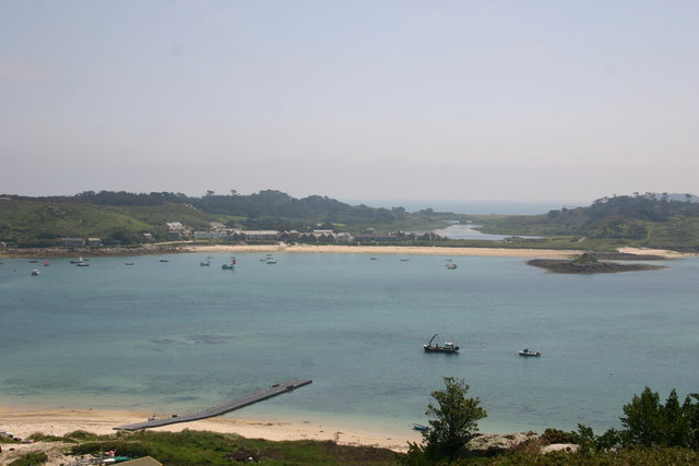 Plumb Island and Great Pool, Tresco, from Bryher View from Bryher across the central part of New Grimsby Sound towards Tresco. Darker patches in the water indicate the presence of weed-covered rocks, a constant hazard to the navigator in the Isles of Scilly, though the weeds do make the rocks easier to see. The entire area seen in this view dries entirely at low tide on spring tides.